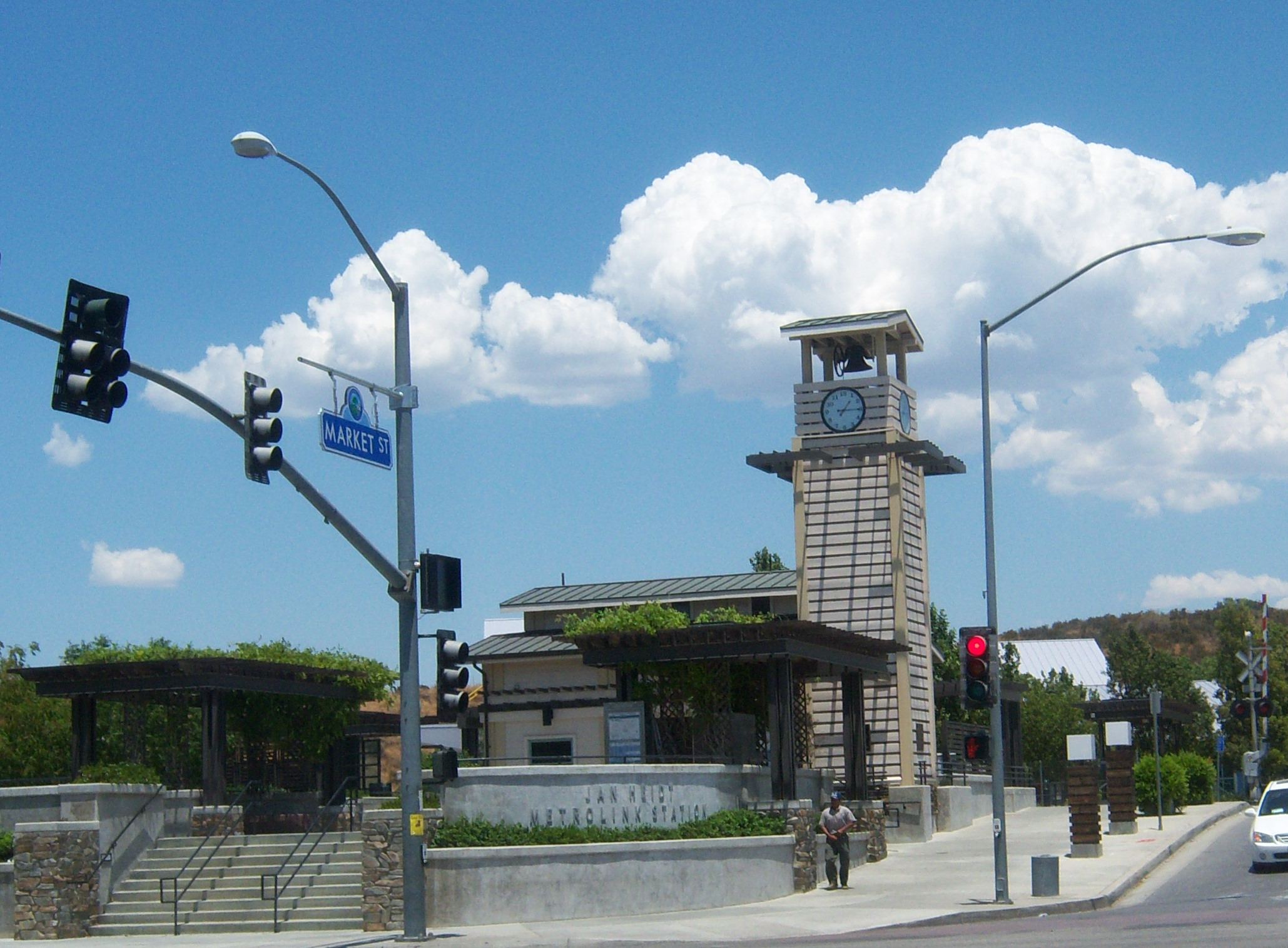 One of three Metrolink stations in Santa Clarita, California. The full name for this station is the "Jan Heidt Newhall Metrolink Station."